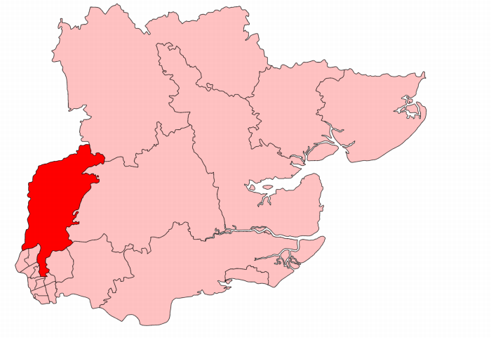 A map of Epping constituency within Essex, as it existed from 1918 to 1945.